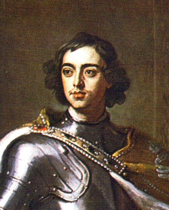 Portrait of Russian Tsar Peter I (the Great) by Godfrey Kneller (1698). This portrait was a Peter's gift to King of England.